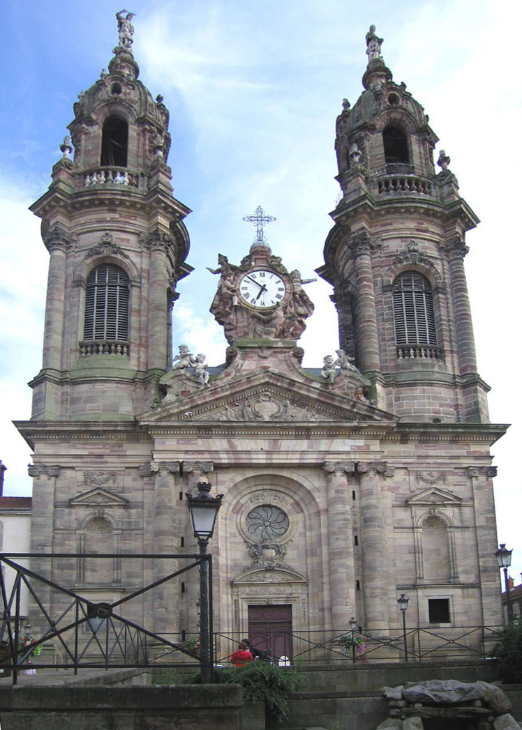 Church of Saint Jacques in Lunéville, Emmanuel Héré (Grain de sel)